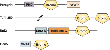 Dominio do bromo